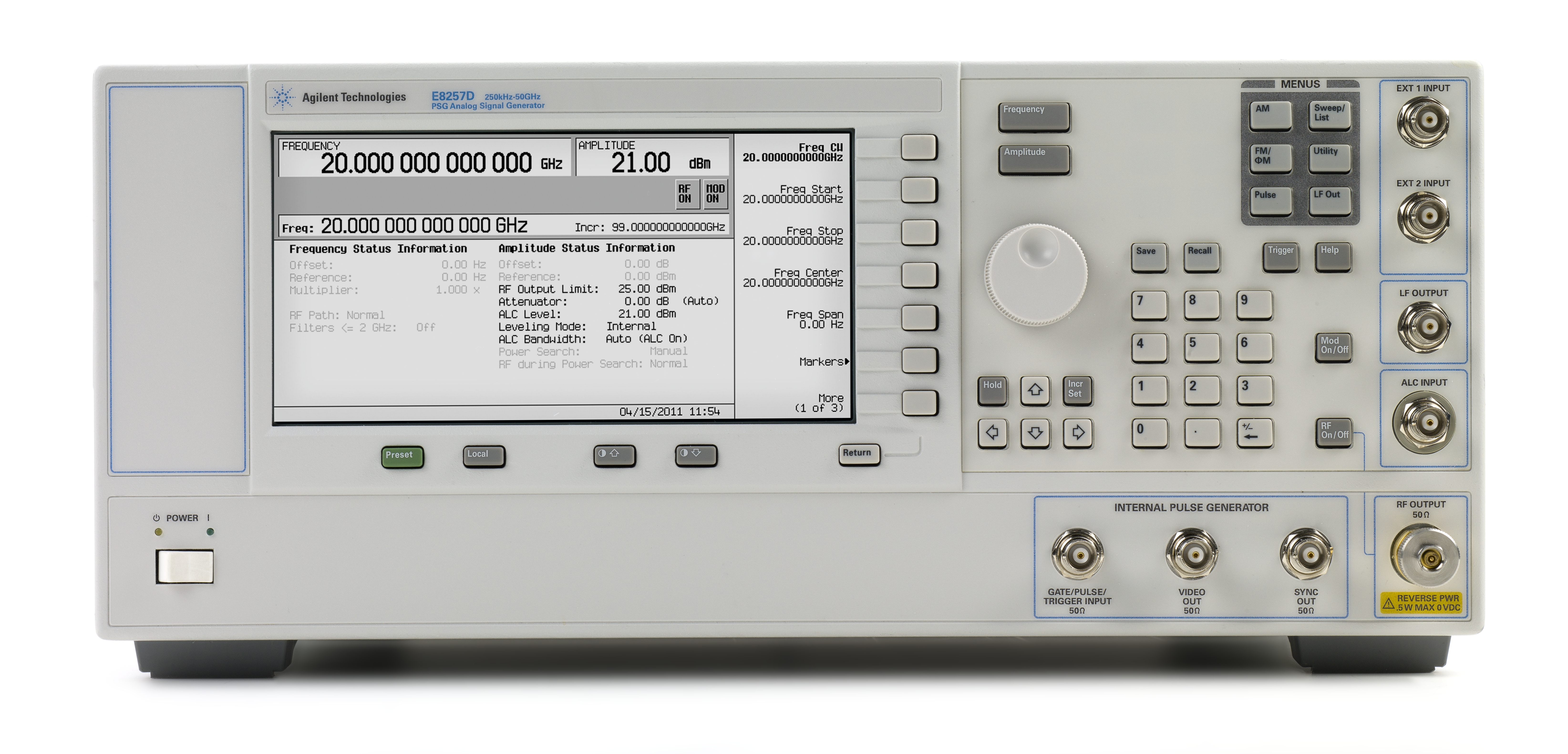 E8257D PSG Analog Signal Generator